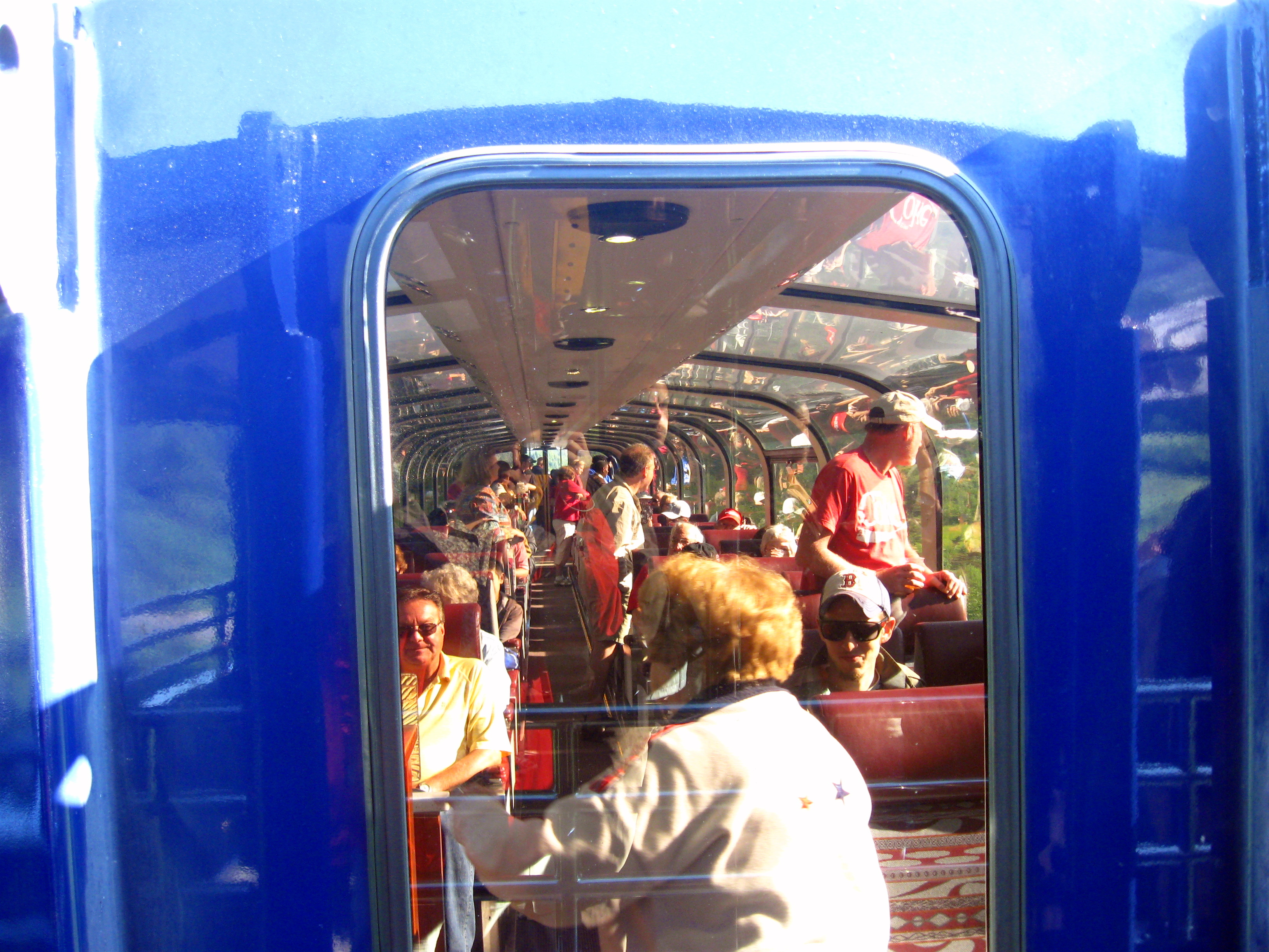 Tourists in a sightseeing car, Alaska. The Alaska Railroad passenger trains pull package-tour cars such as this one along with their own cars.